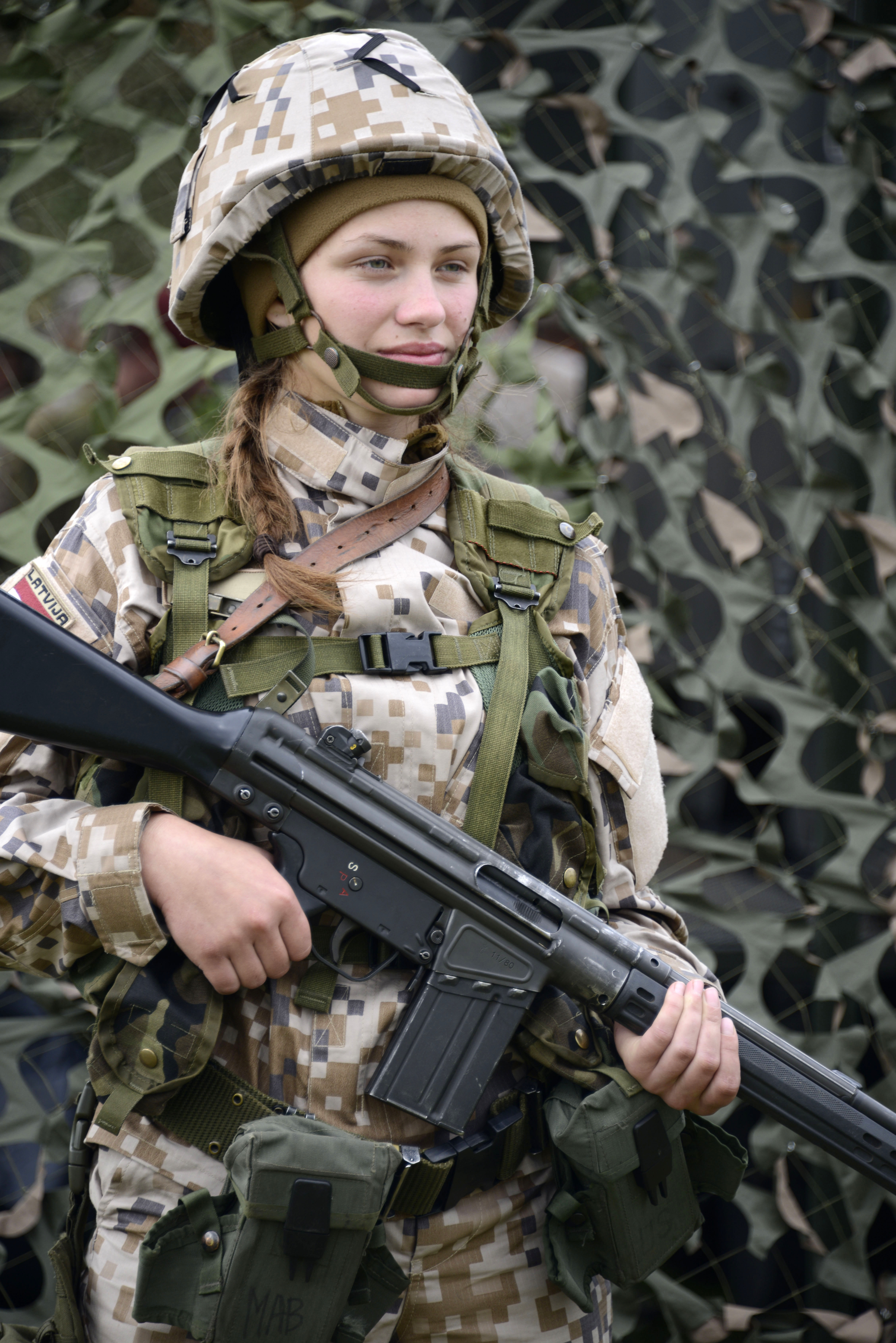 A Zemessardze (Latvian National Guardsman) guards the battalion tactical operations center during the Strong Guard 2016 (Zobens 2016) distinguished visitor's day near Tukums, Latvia, Aug.14, 2016. Soldiers of the 177th Military Police Brigade, Michigan National Guard, and Lima Company, 3rd Battalion, 25th Marines, are participating with the Zemessardzes in Strong Guard, an annual Latvian-led training exercise. Strong Guard 2016 demonstrates the continued U.S. commitment to the security of their NATO Allies in the light of increased tension in Eastern Europe. (U.S. Army photo by Staff Sgt. Kimberly Bratic/Released)